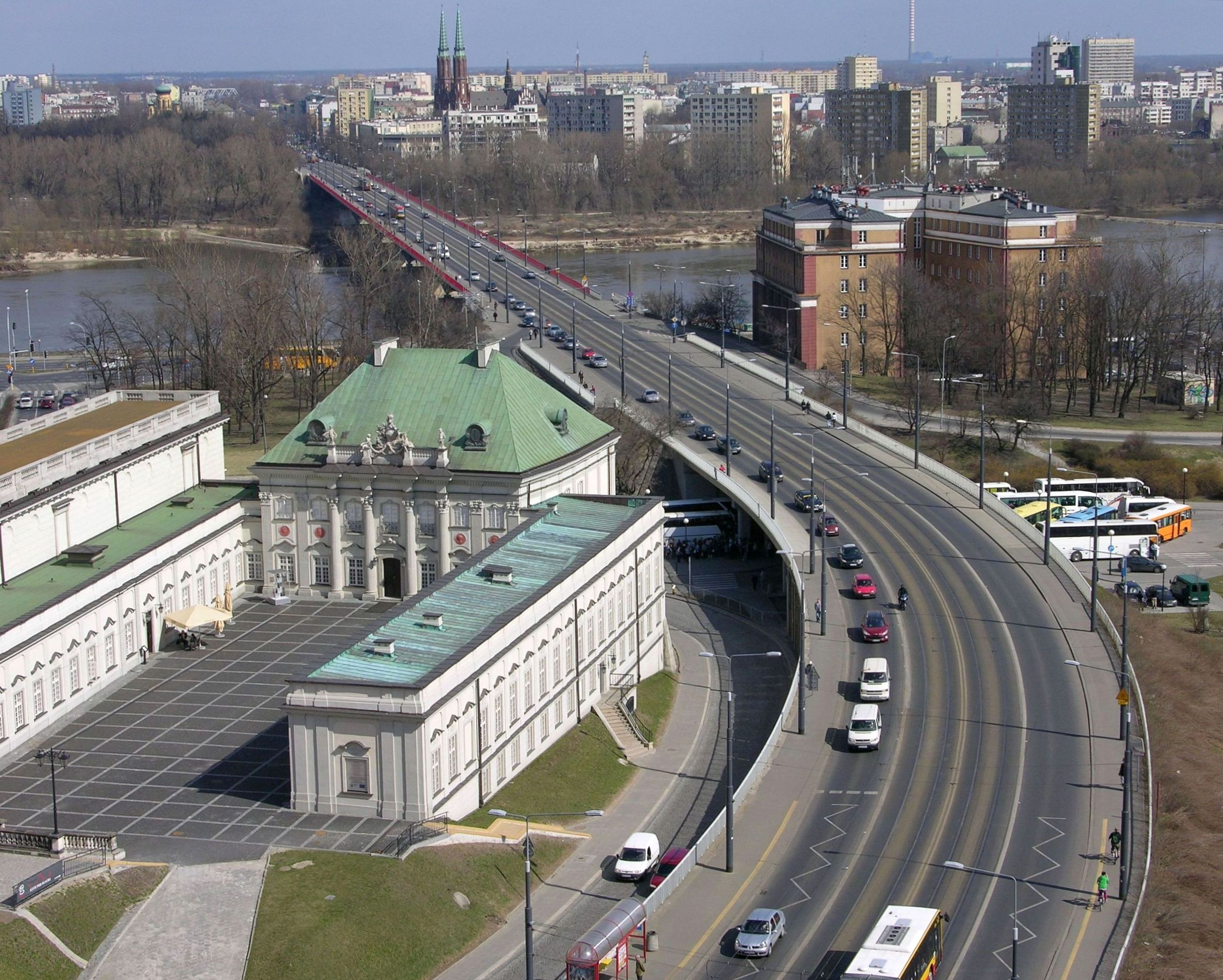 Śląsko-Dąbrowski Bridge in Warsaw